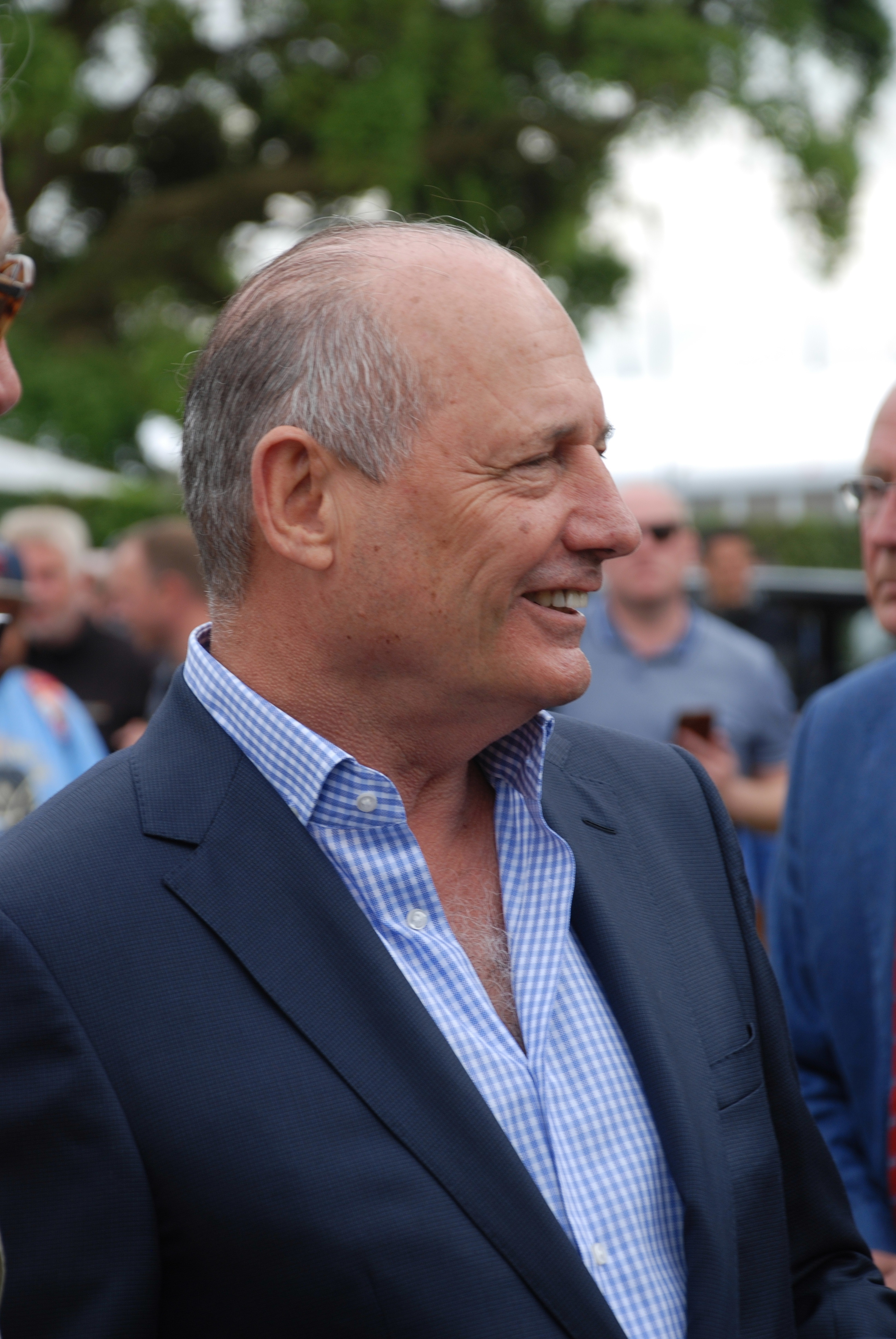 Goodwood Festival of Speed - 2016 Goodwood House England Sunday 26th June 2016